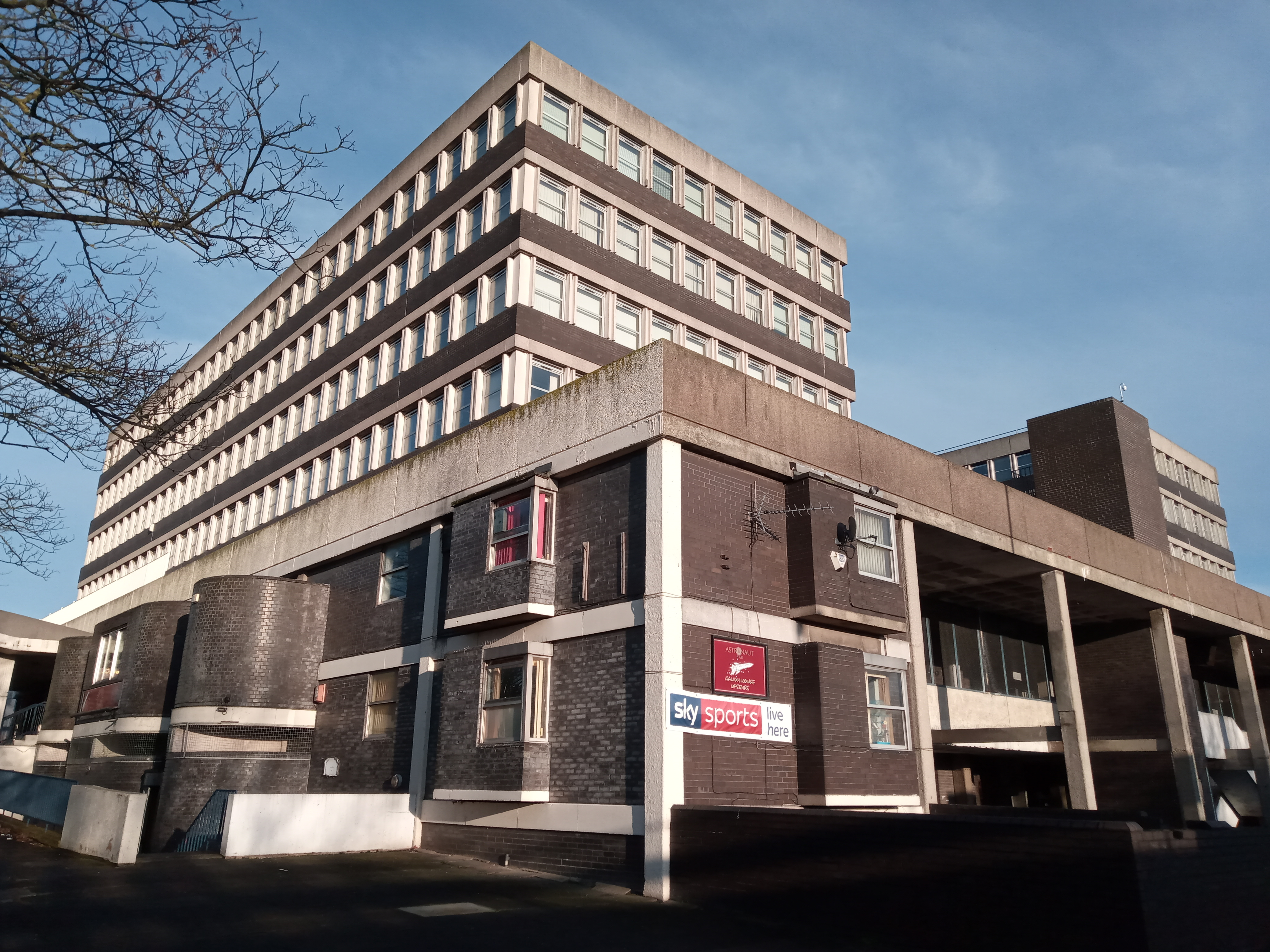 Billingham